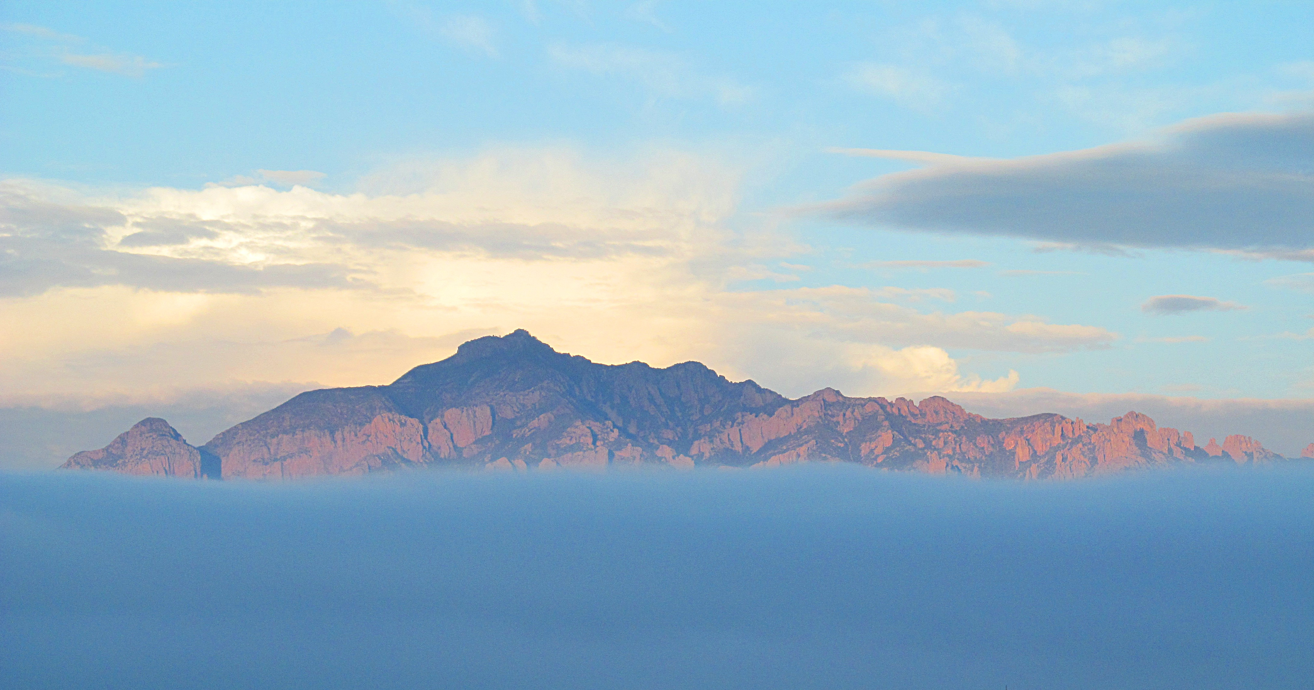 The 8000' Portal Peak in the Chiricahua mountains, one of the sky islands of the basin and range province of southern Arizona and New Mexico surrounded by clouds.